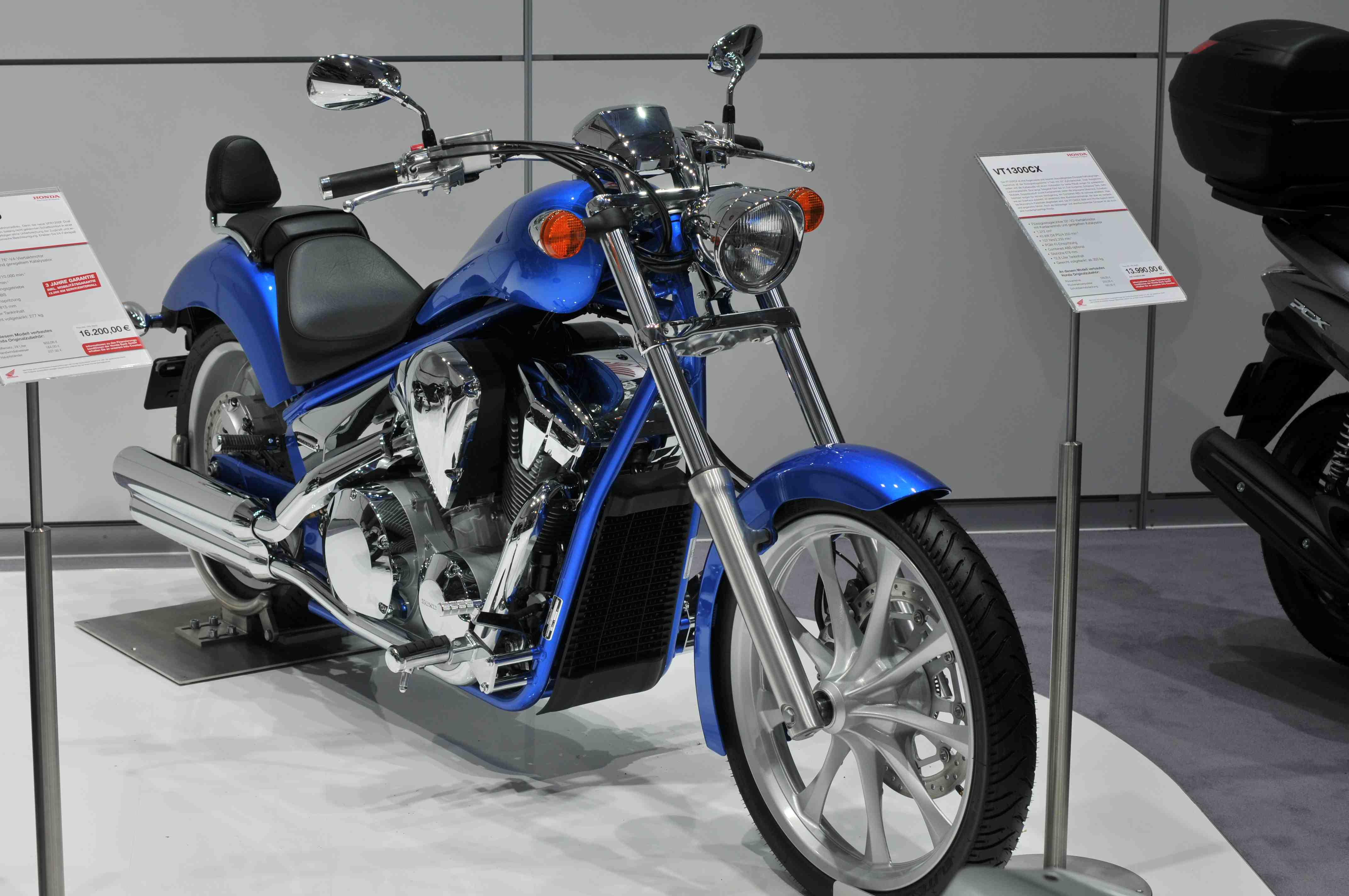 Honda VT 1300 CX motorcycle in Frankfurt, Germany. IAA 2011.